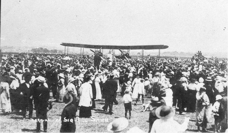 Arrival of Sir Ross Smith's Vickers Vimy at Mascot - Sydney, NSW. 1920-02-14. State Library of New South Wales Call Number "At Work and Play - 01590".